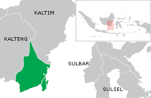 Location of South Kalimantan province, Indonesia